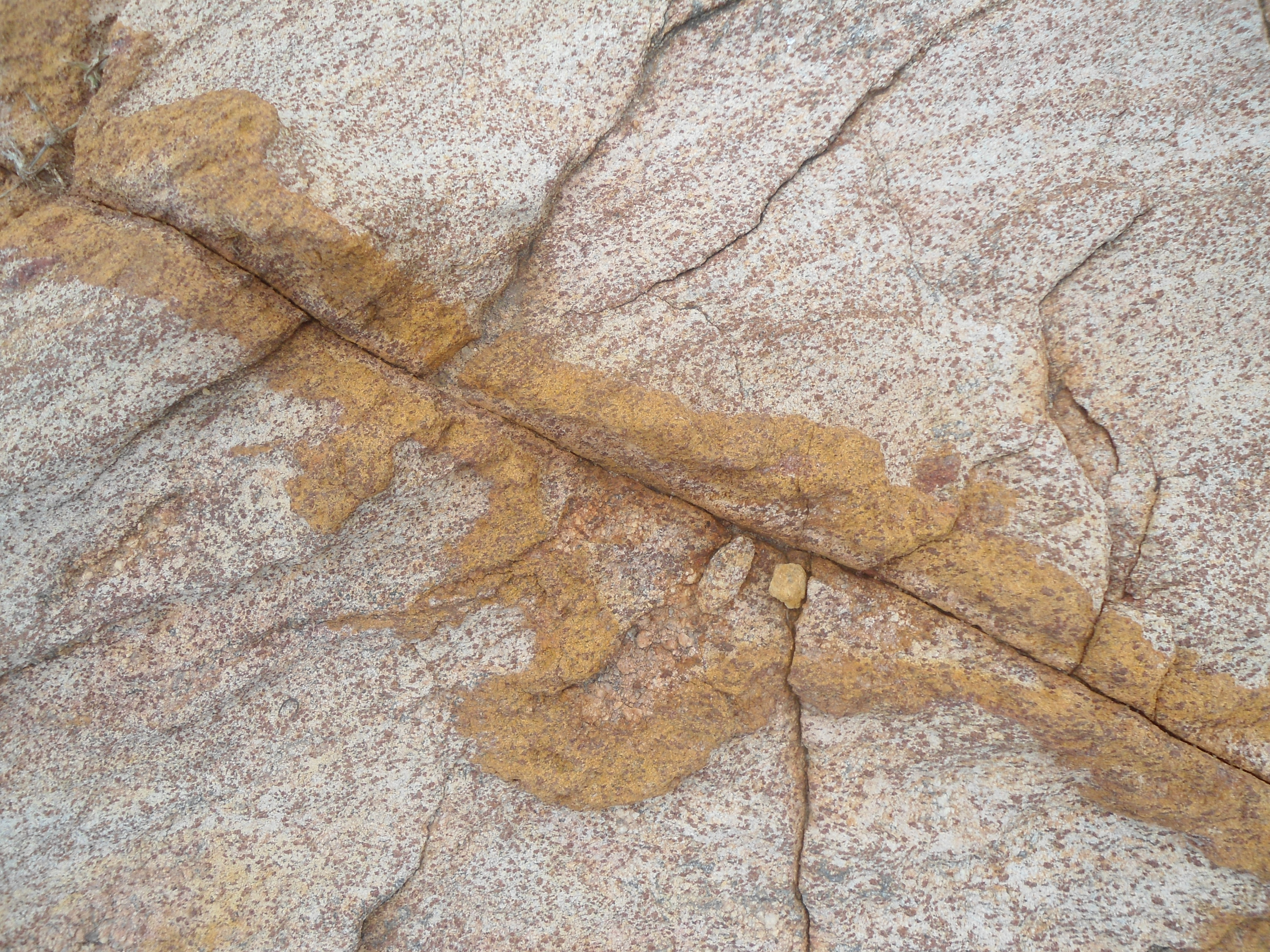 Khondalite Rock formations at Rushikonda beach, Visakhapatnam